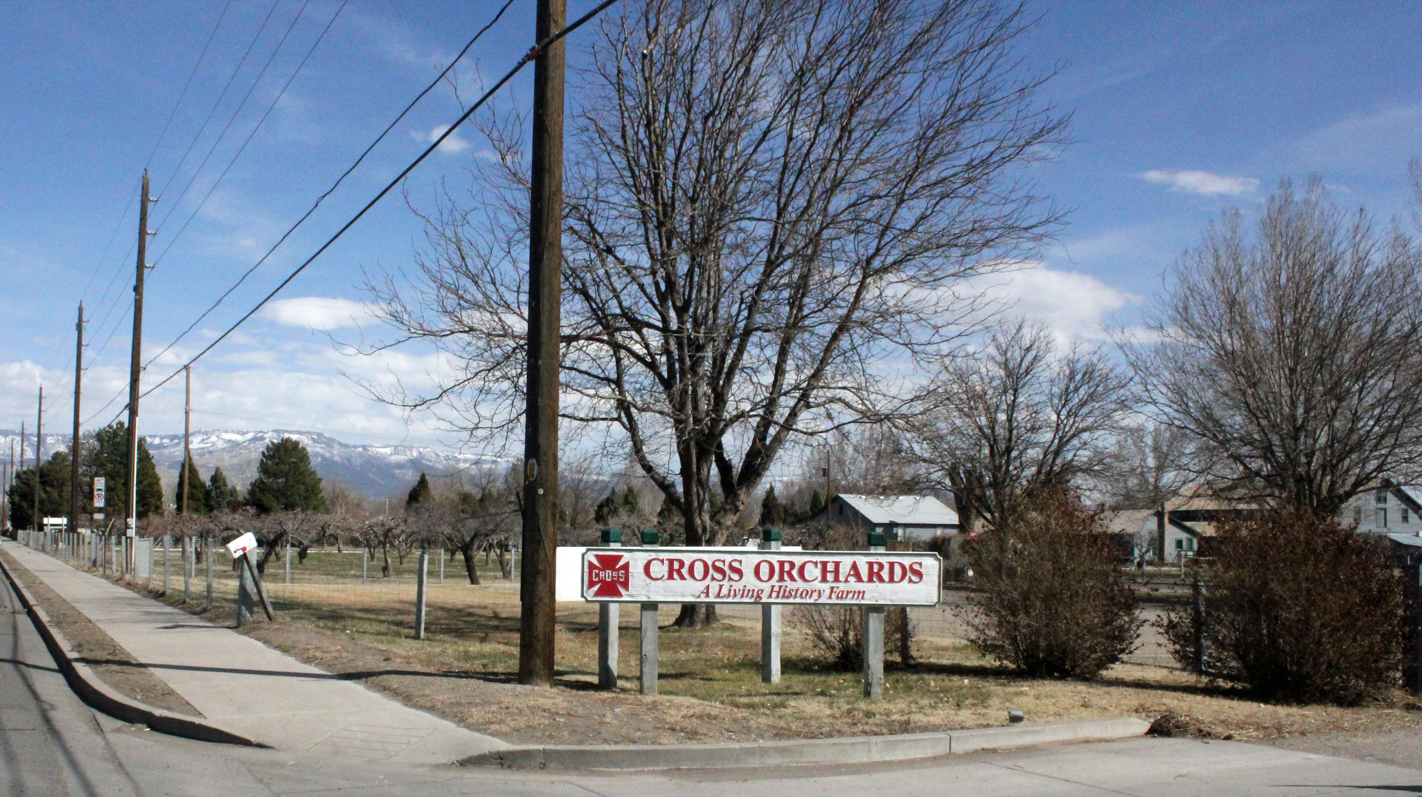 The Cross Land and Fruit Company Orchards and Ranch, located at 3079 F Road in Grand Junction, Colorado.